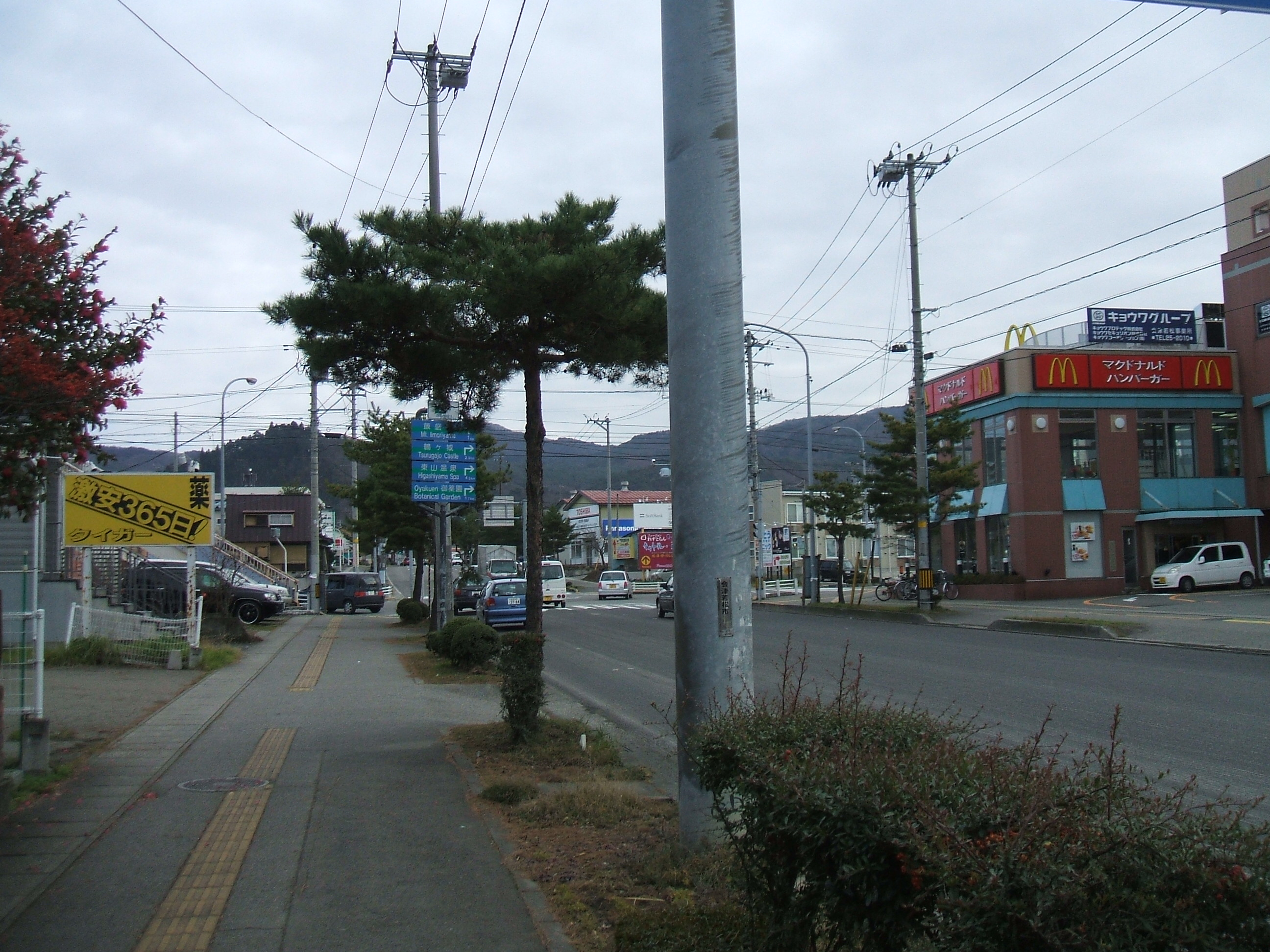 The Byakko-Dori street in Aizuwakamatsu City, Fukushima Prefecture, Japan, near the intersection with the Sengoku Dori street